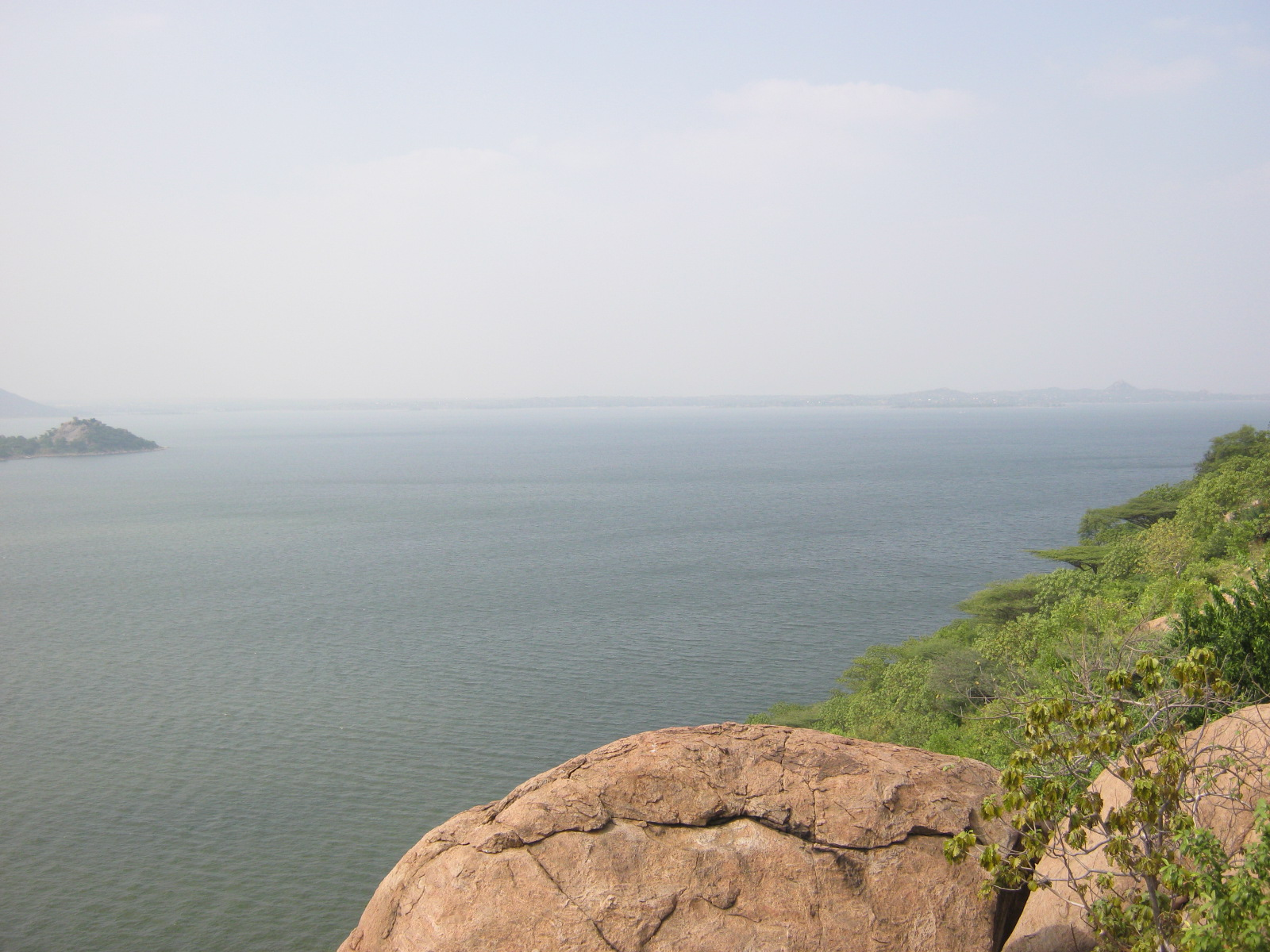 Stanley reservoir has a catchment area of 16300 sq miles. effective capacity of reservoir is 93,470 MCFT